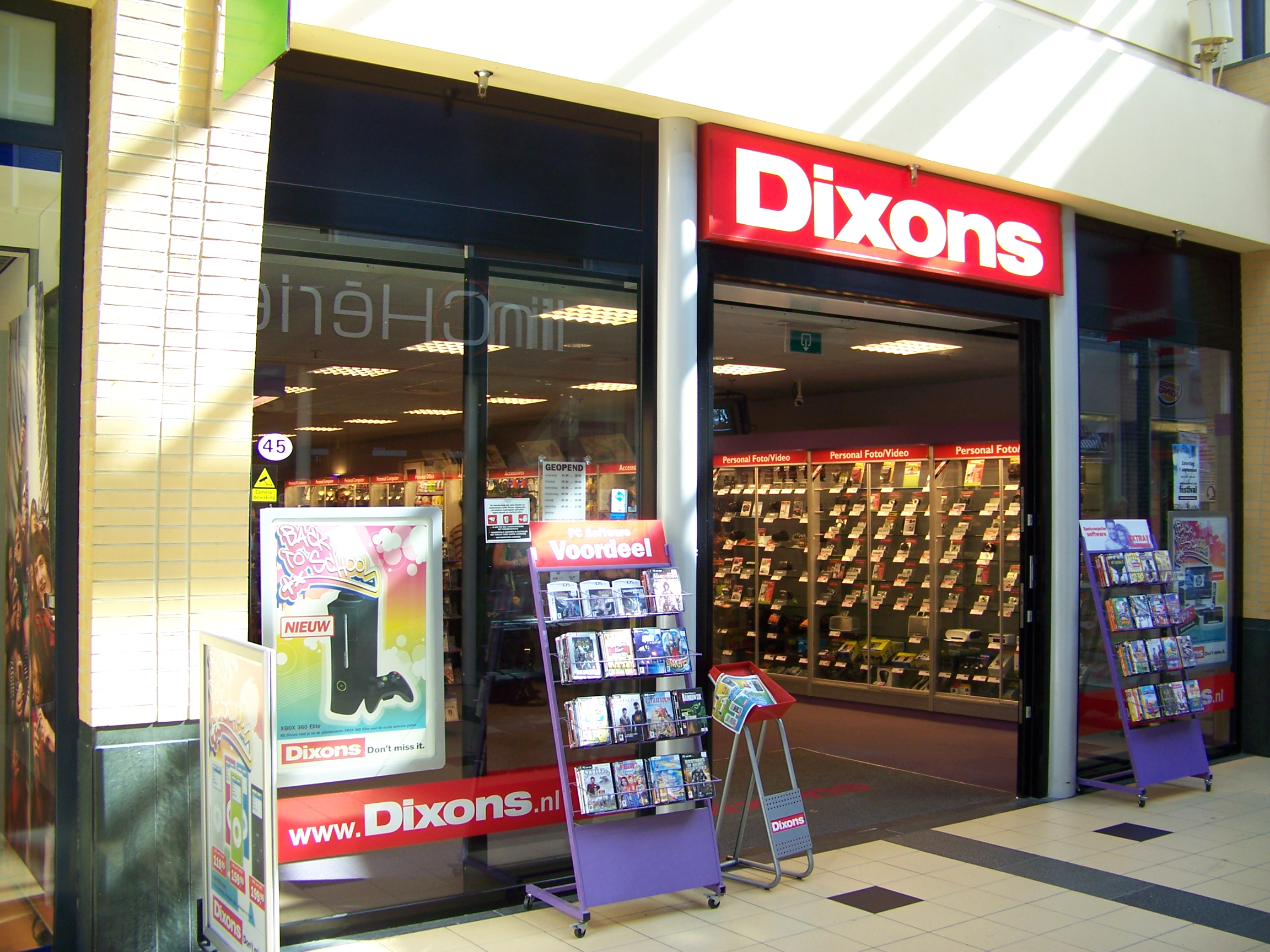 Dixons shop im Emmen